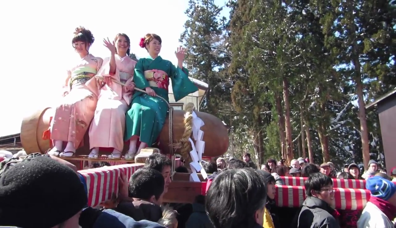 Hodare Festival (Hodare Matsuri), a festival in Tochio, Nagaoka, Niigata Prefecture, Japan